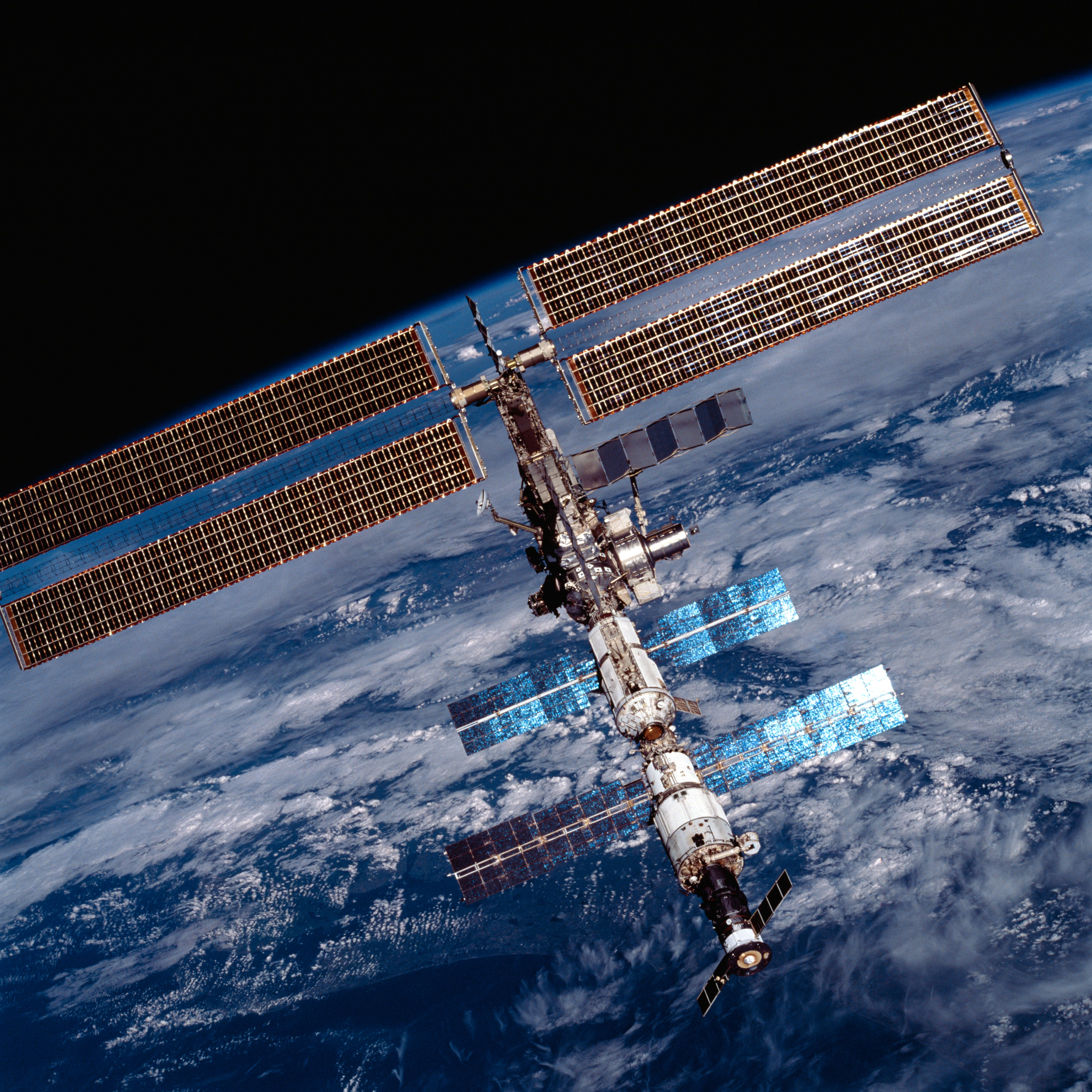 International Space Station on 20 August 2001